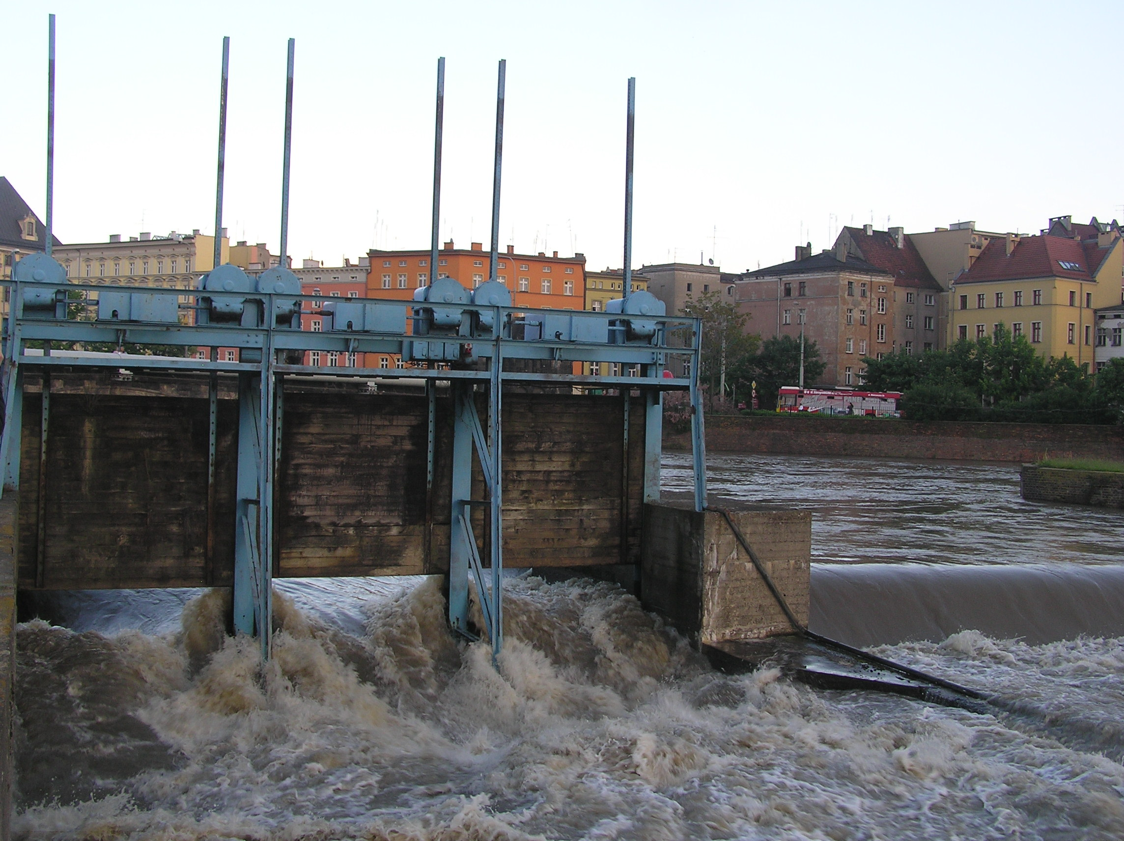 Wrocław, weir of southern hydroelectric plant in Wrocław